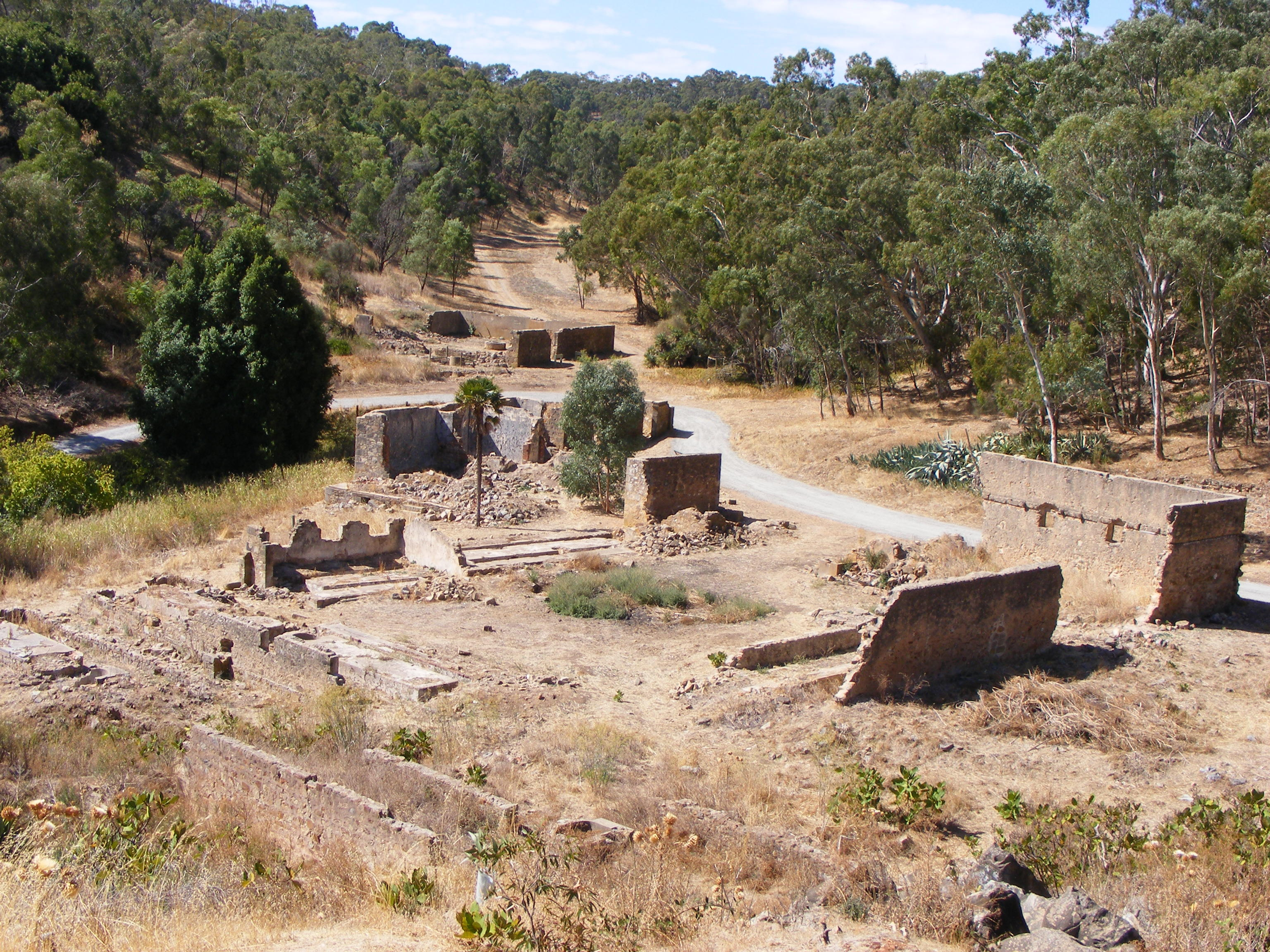 View of Newman's nursery ruins, Anstey Hill recreation park, Adelaide, South Australia. From the top of a dolomite quarry.